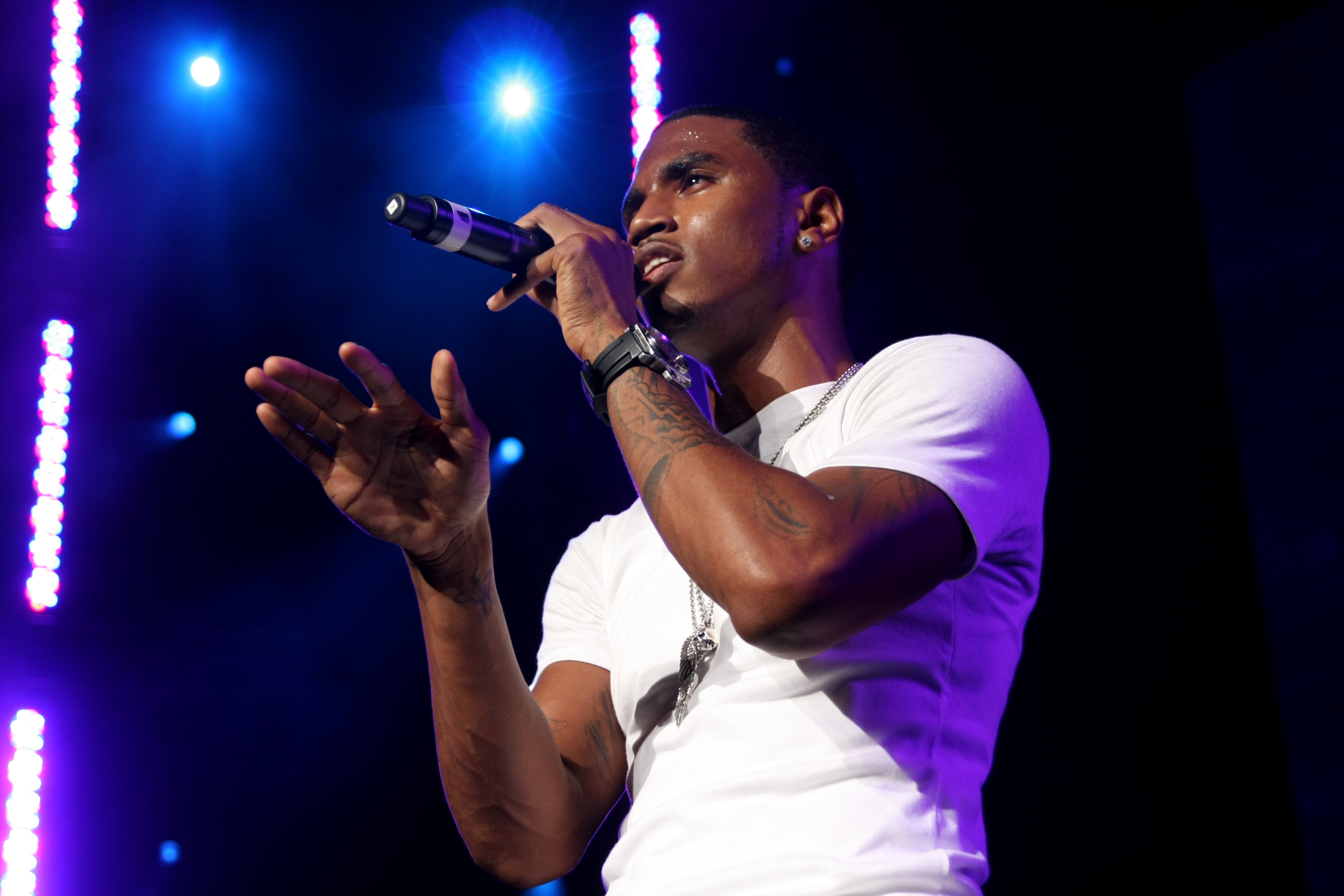 Trey Songz performing at the 94.5 Summer Jam on June 5, 2010.